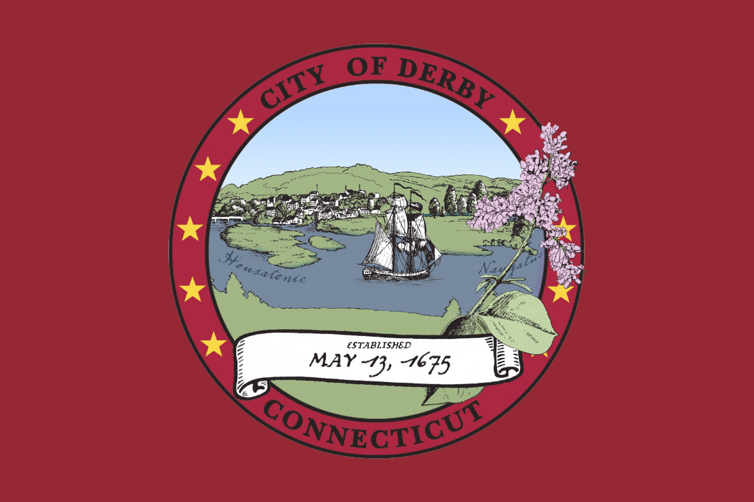 This is the official flag of Derby, CT. It is a re-upload of the last one I created, which turned out blurry. I will use this re-upload on Derby's Wikipedia page.